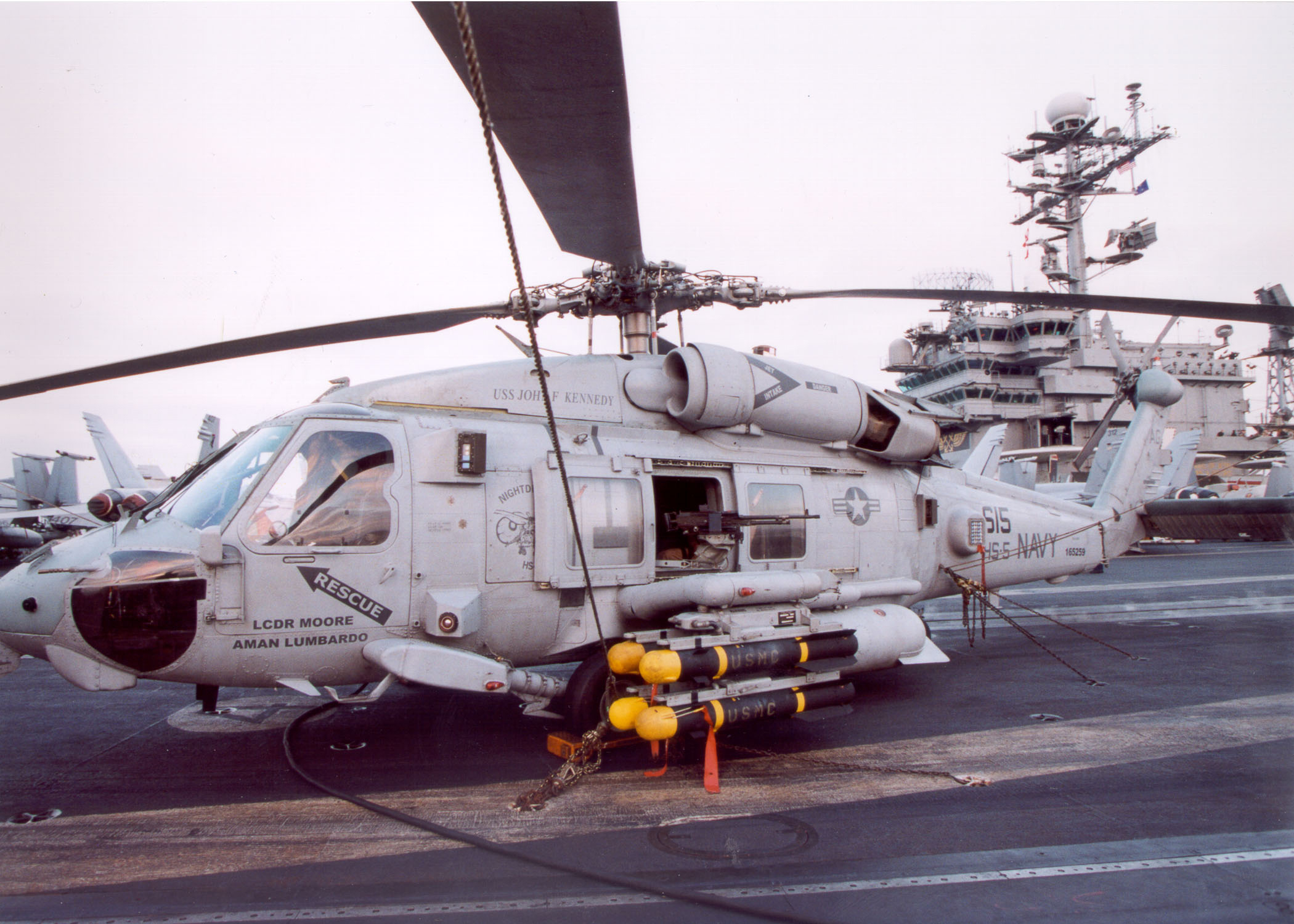 020304-N-0894C-002 At sea aboard USS John F. Kennedy (CV 67) Mar. 4, 2002 -- An HH-60H "Sea Hawk", armed with AGM-1148 Hellfire air-to-ground missiles, sits on the flight deck as the ship transits the Suez Canal. The Sea Hawk is assigned to the "Nightdippers" of Helicopter Anti-Submarine Squadron Five (HS-5) attached to Carrier Air Wing Seven (CVW-7) and are embarked on the Kennedy in support of Operation Enduring Freedom. U.S. Navy photo by Photographer's Mate 3rd Class Marcelino Caswell. (RELEASED)